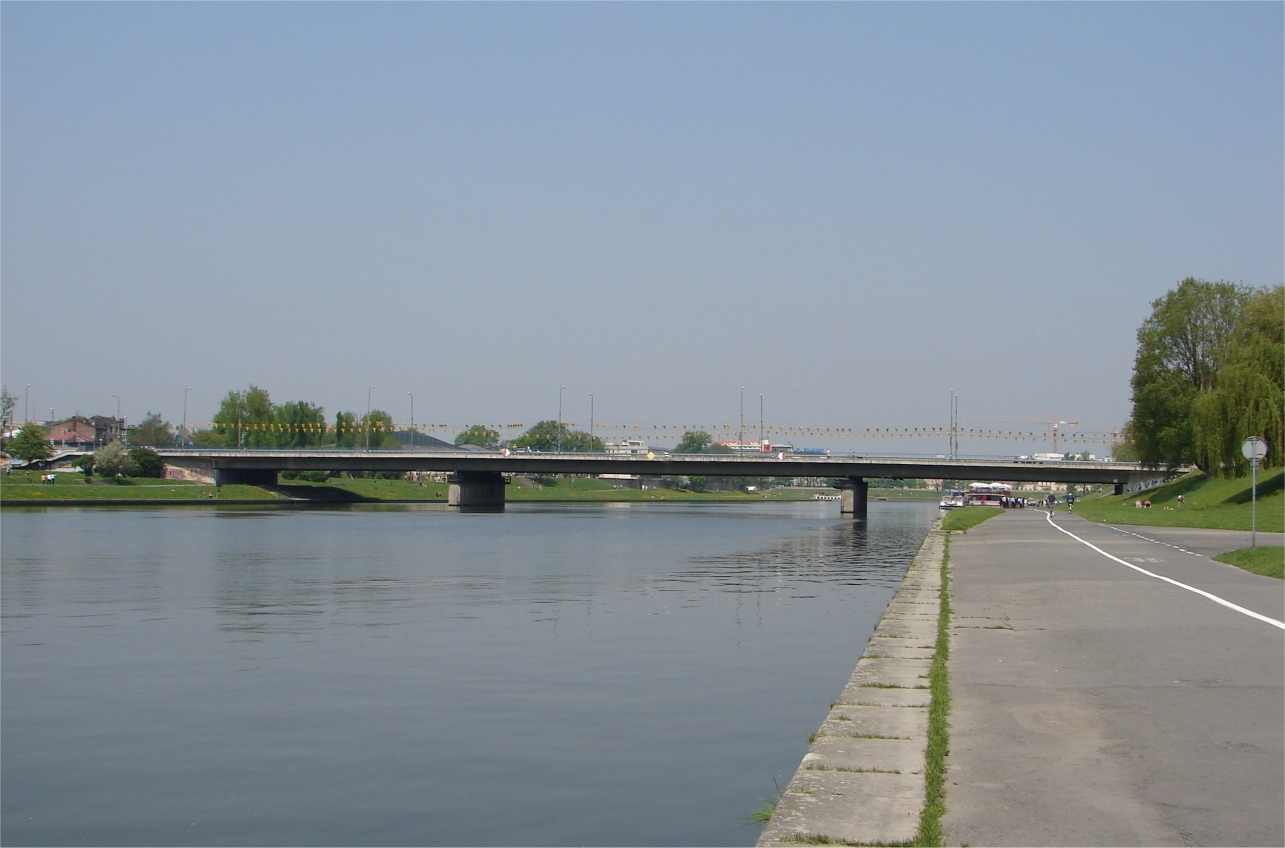 Grunwaldzki Bridge in Krakow